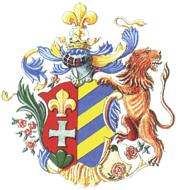 Baron Hottinguer Coat of Arm